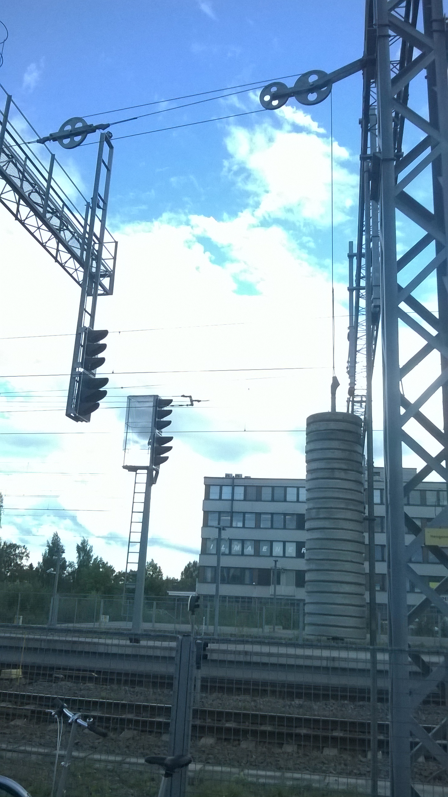 Pulley system that is part of railway electric lines